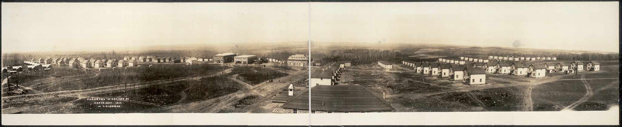 Panorama of Colver, PA.